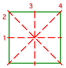 There are 4 lines of symmetry in a square. The number of lines of symmetry in a regular polygon is equal to the number of sides.